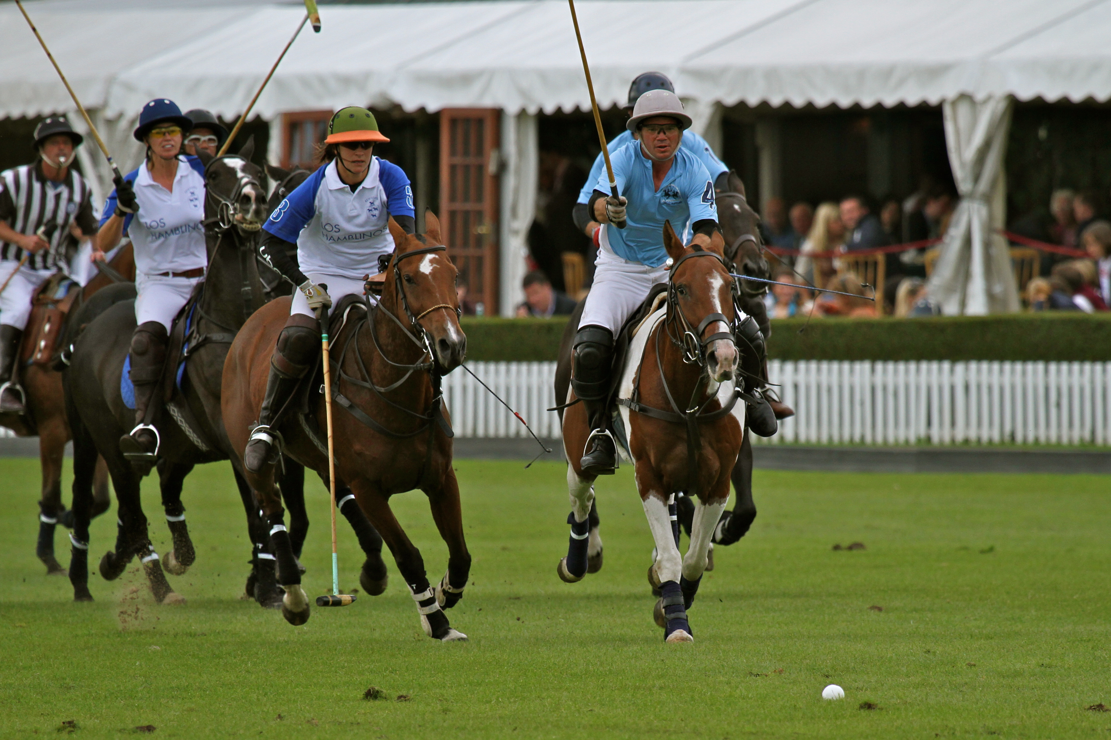 Players in the Ham Polo Club Billy Walsh tournament final 2011